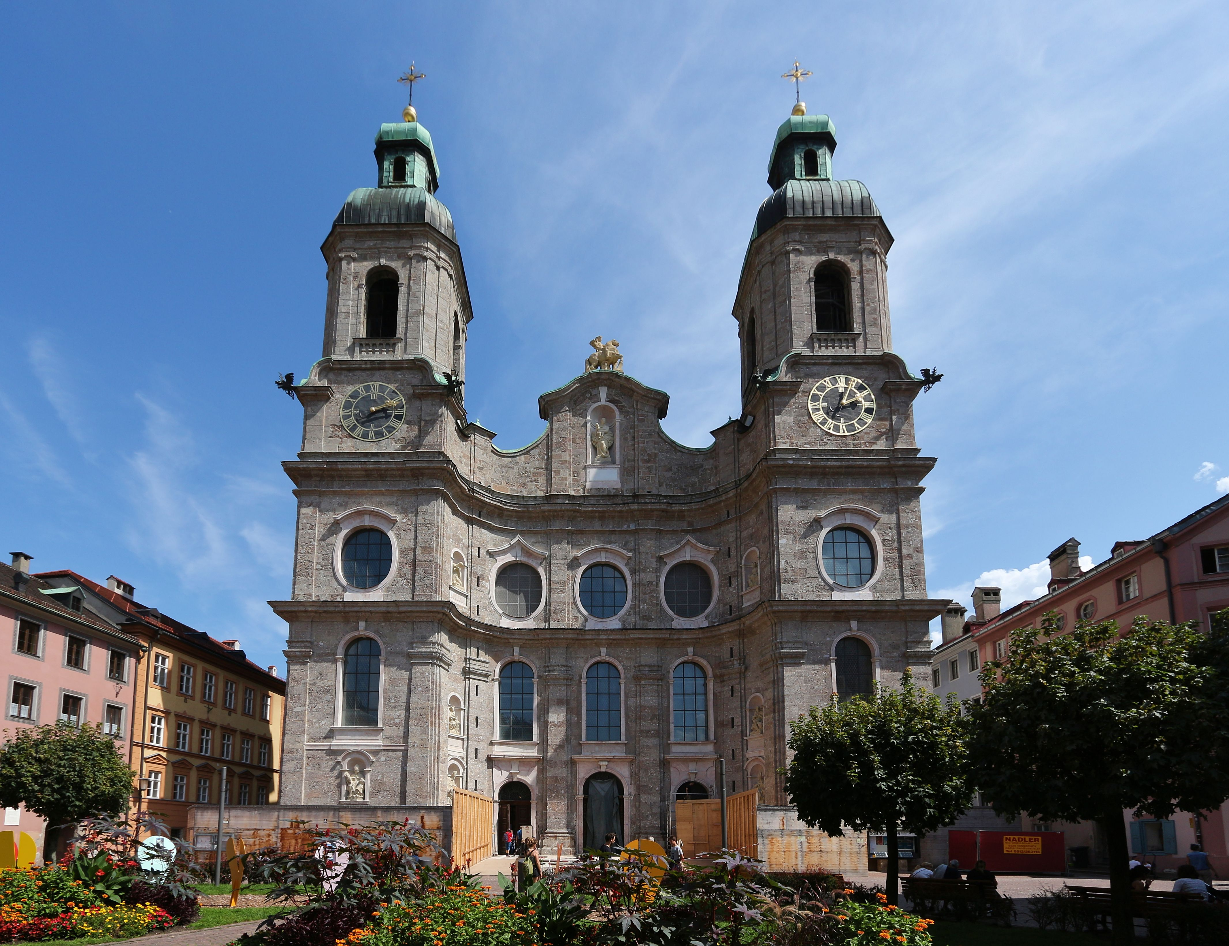 Dom zu St Jakob